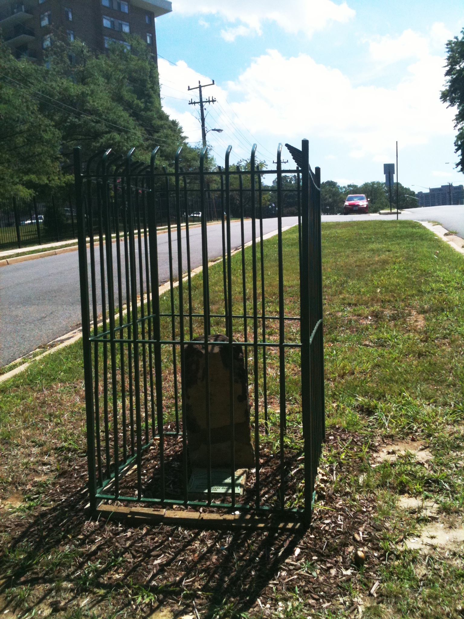 Southwest No. 6 Boundary Marker of the Original District of Columbia, view from the median showing surrounding street